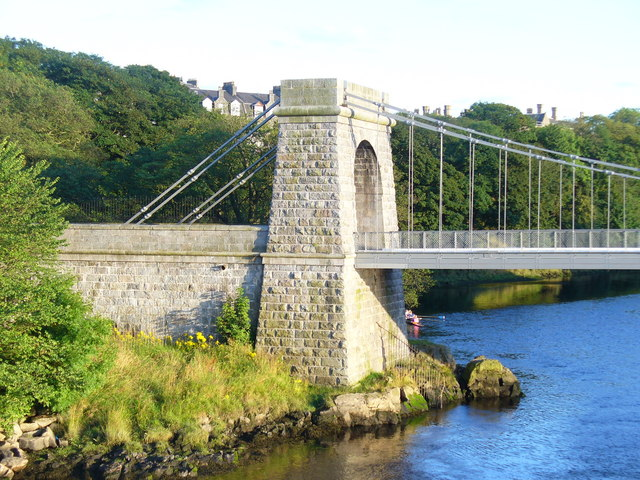 Torry Bank, Wellington Suspension Bridge The bridge, dating from 1830, has been recently re-opened and now only carries pedestrian traffic.